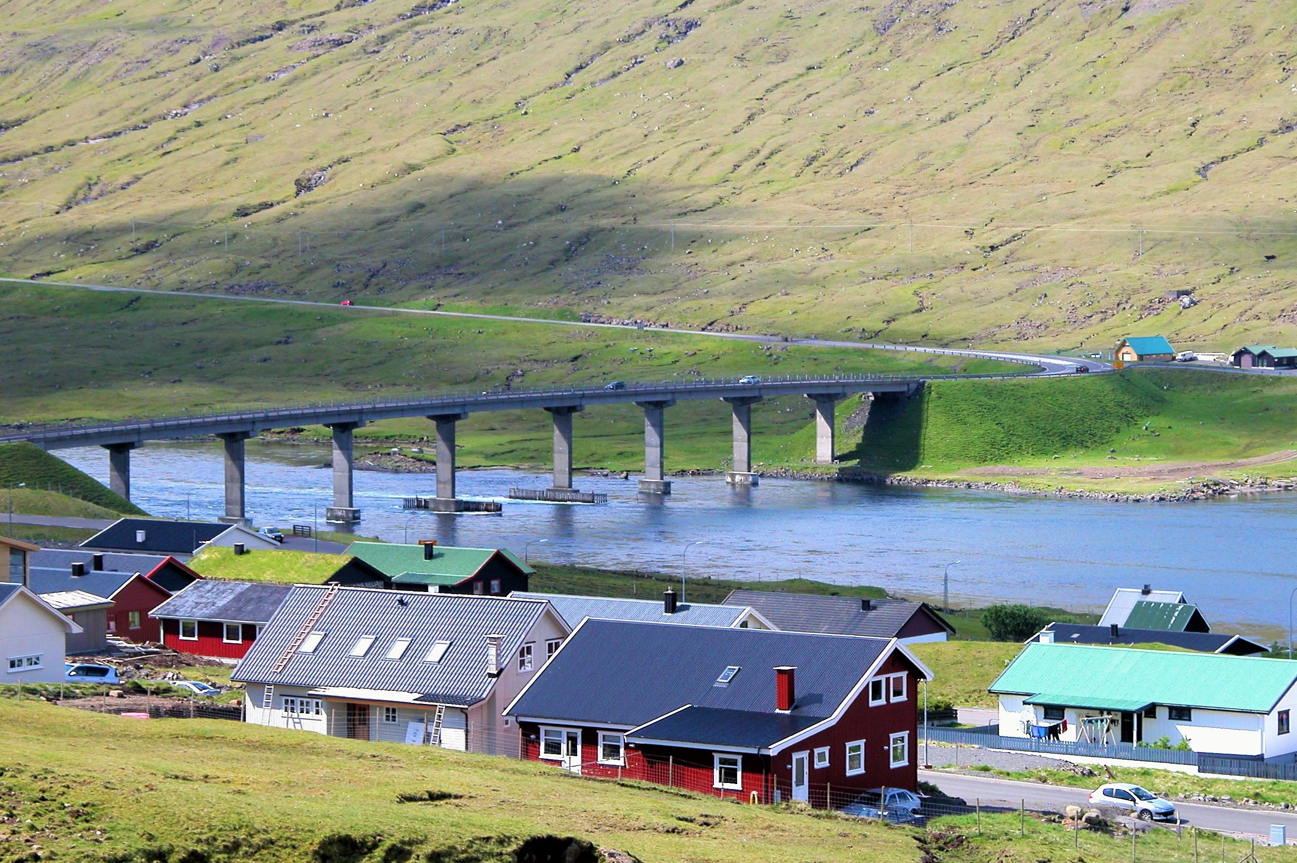 Norðskali and the bridge between Streymoy and Eysturoy - Brúgvin um Streymin